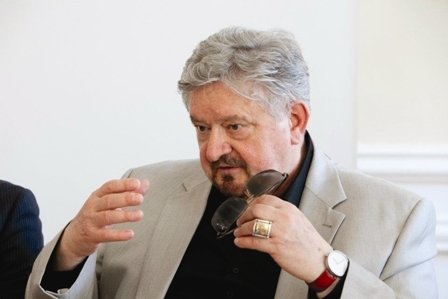 Professor Milan Zeleny, M.S., Ph.D